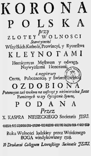 first ed. Roll of arms of Kasper Niesiecki